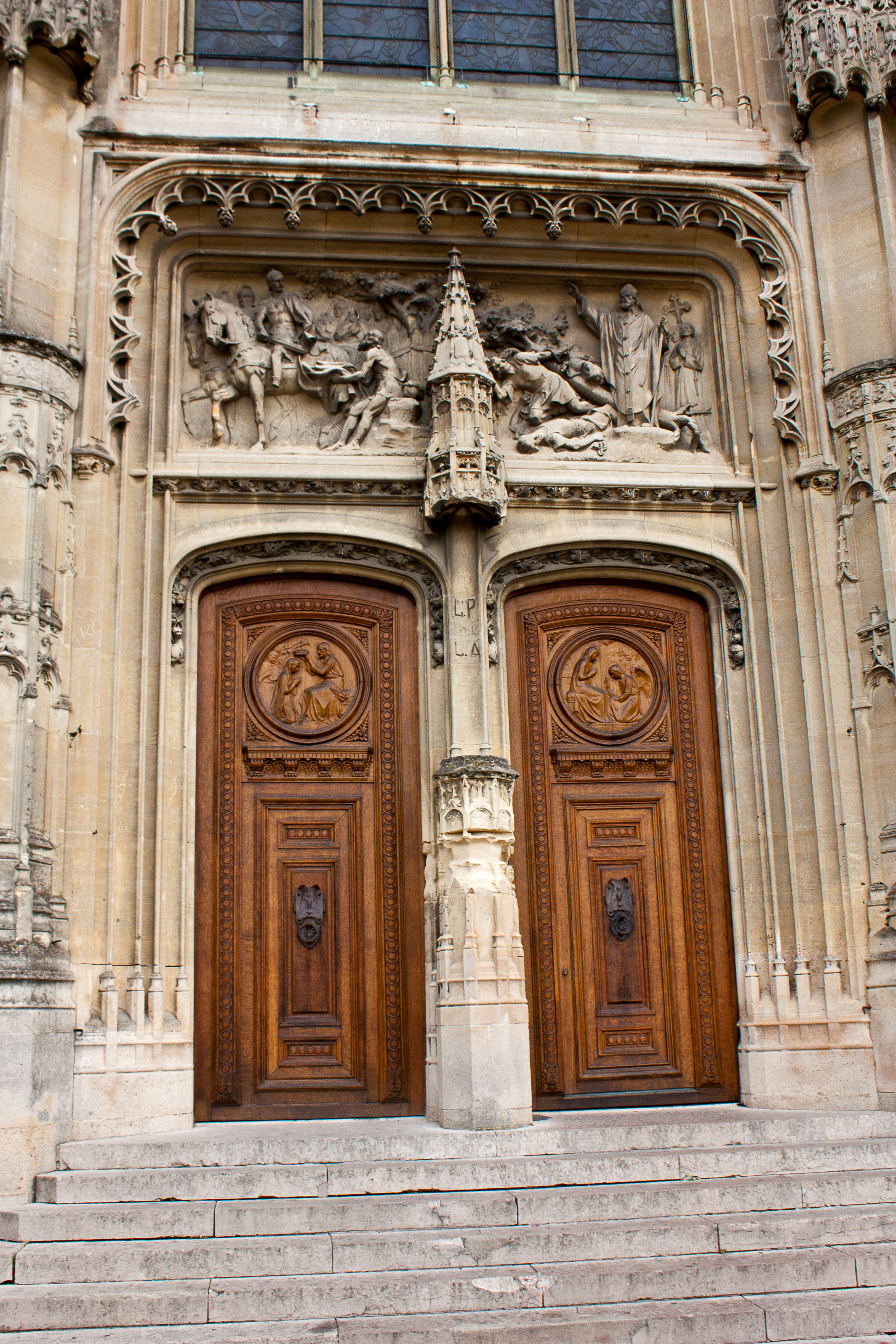 West porch, surmounted by a tympanum in which are represented scenes from the life of St. Martin; closed by two carved doors représentating the Coronation of the Virgin and the Annunciation.